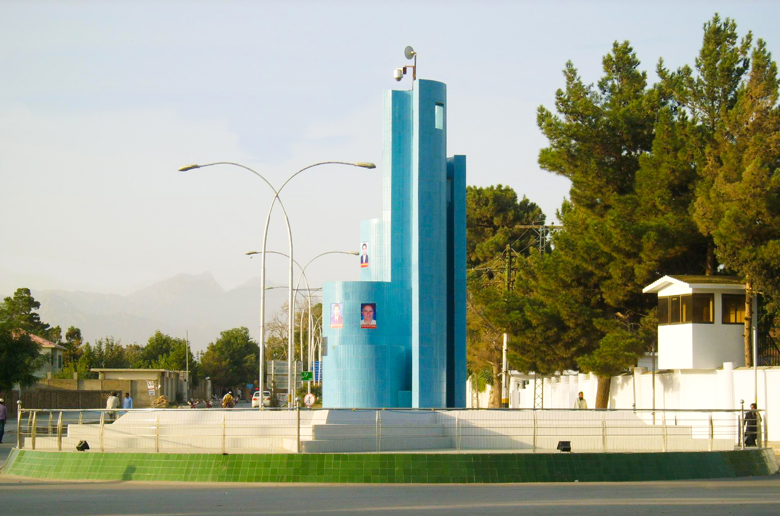 Monument Constructed in the loving memory of those mountaineers of Chiltan Adventurers Association Balochistan who were killed in bus accident coming from K-2 Expedition 08th August 2004.